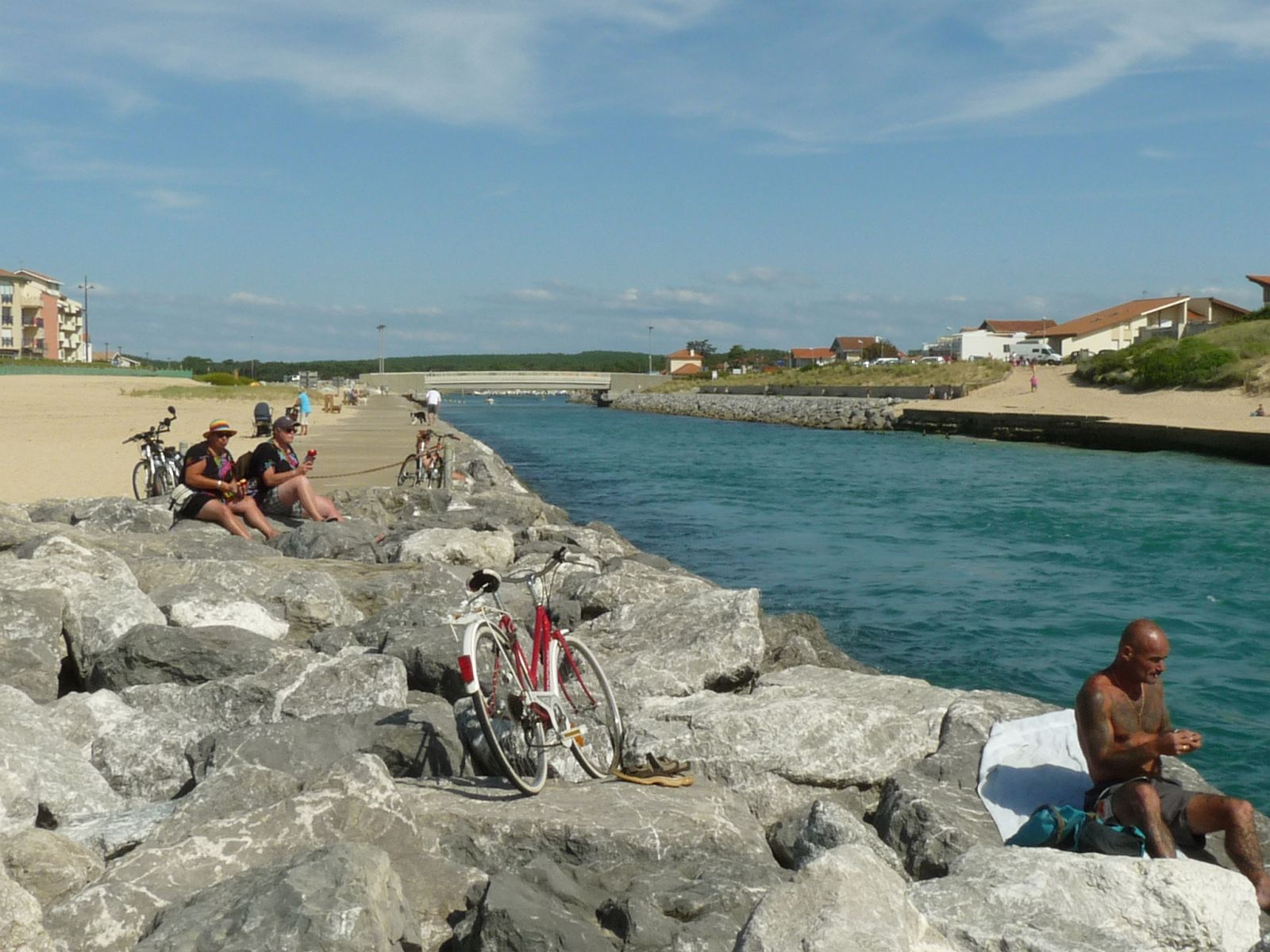 Mouth of the Mimizan Stream at Mimizan-Plage, Landes, SW France